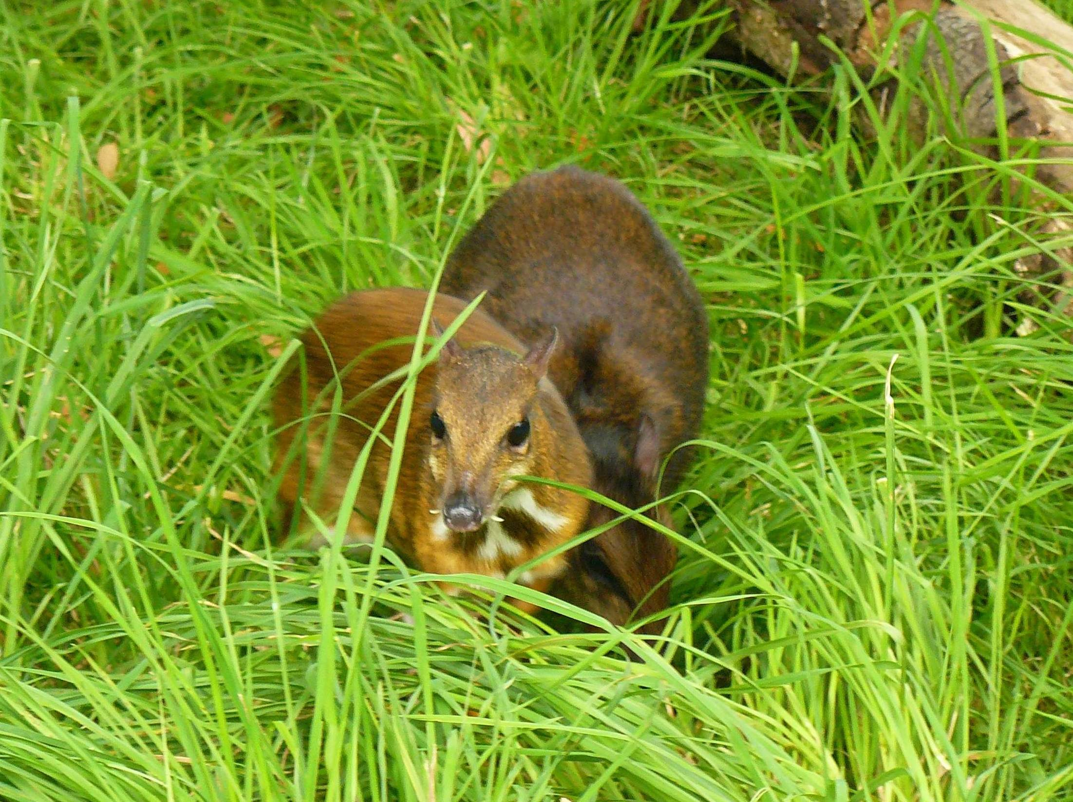 Lesser Malay chevrotain (Tragulus javanicus) at Edinburgh Zoo